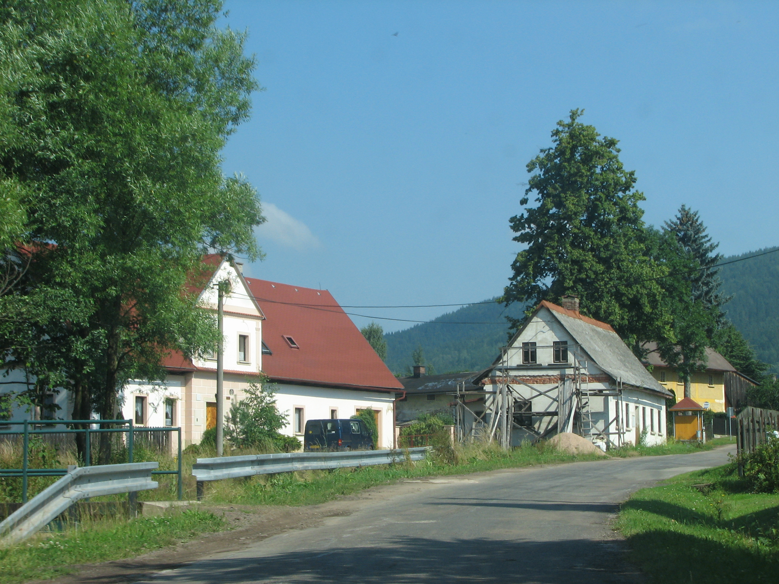 Vižňov - a street